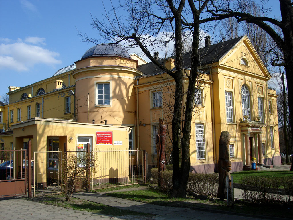 Bath house in Zgierz, Poland, built in 1926